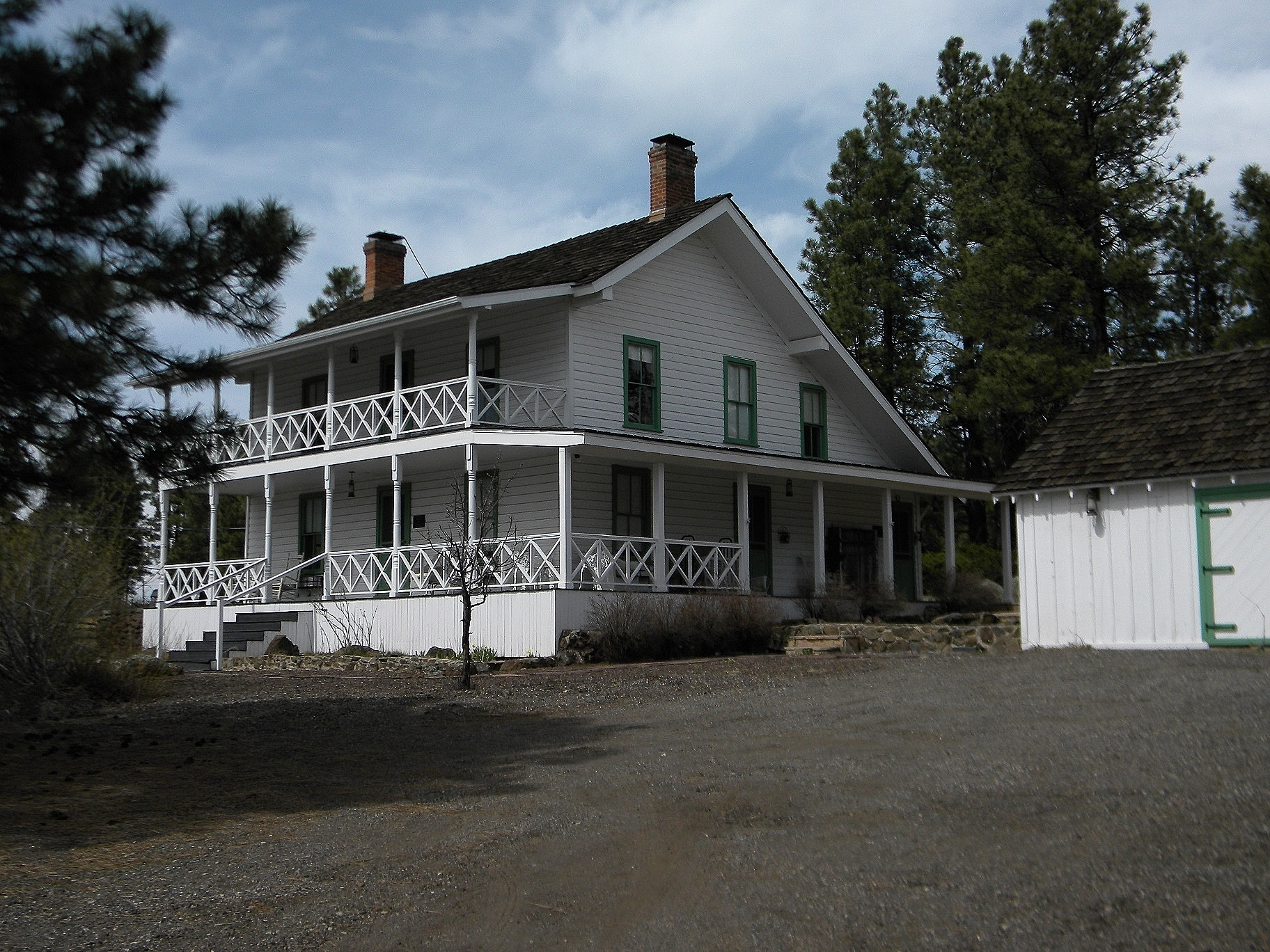 The Homestead